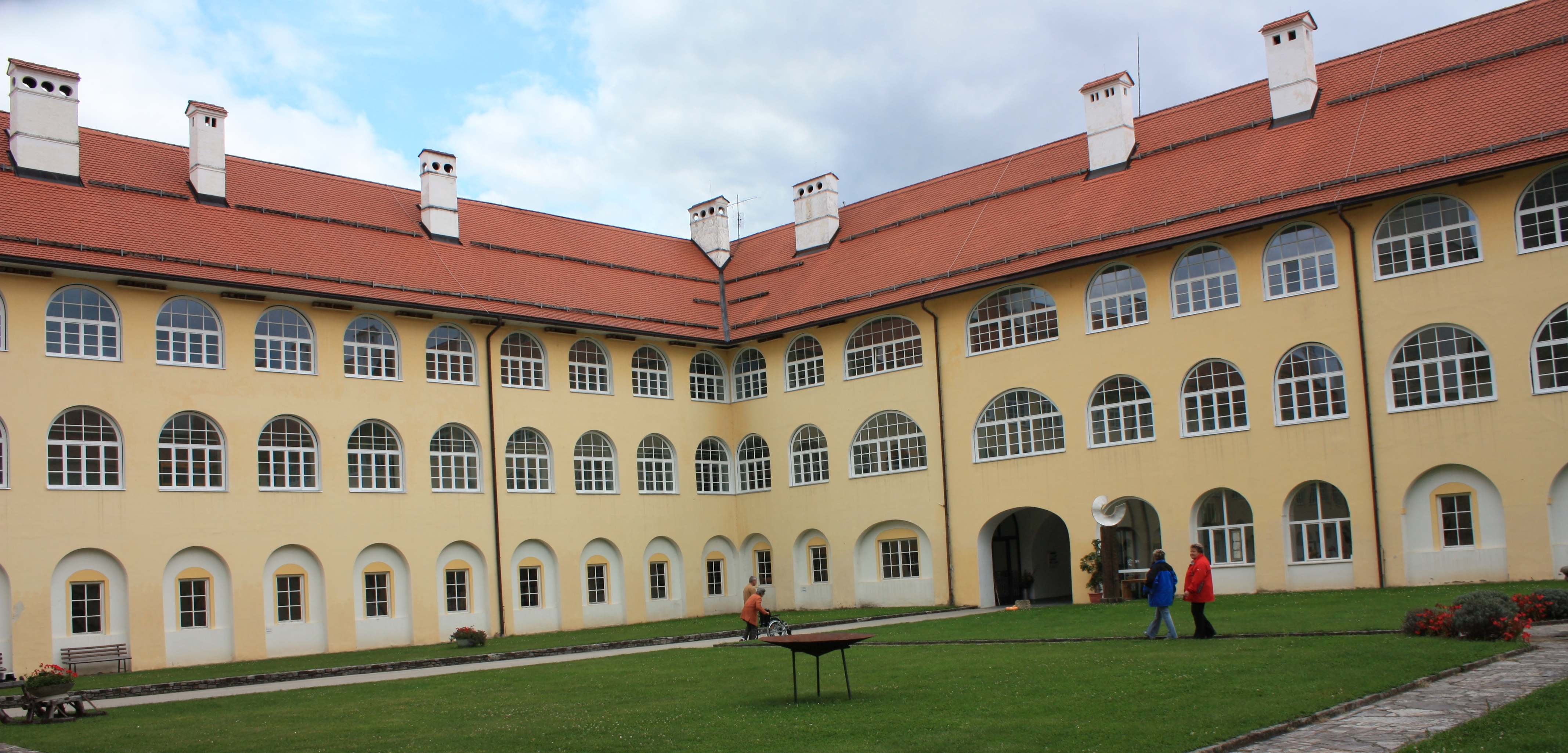 Monastery: Southern court Locality: Sankt Georgen am Längsee Community:Sankt Georgen am Längsee